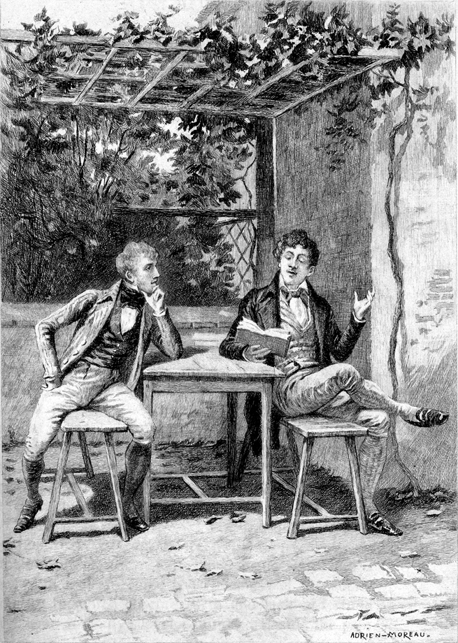 Title page of Honoré de Balzac's Lost Illusions, In Finot's Office (1839).